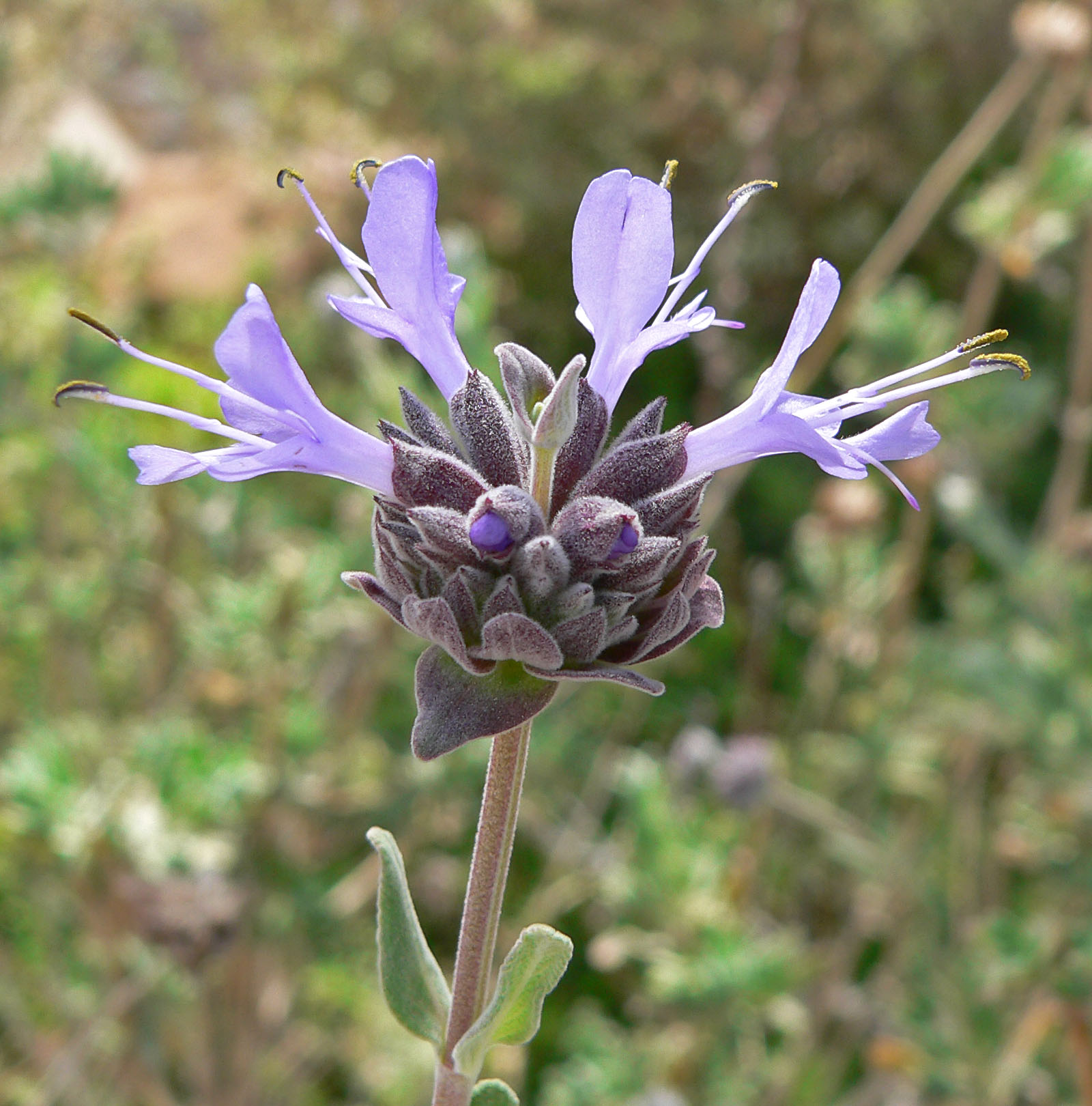 Salvia clevelandii at the UNLV arboretum, Las Vegas, Nevada